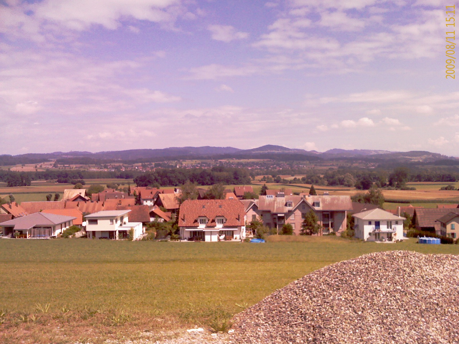 Birri, municipality of Aristau, canton of Aargau, SwitzerlandEsperanto: Birri, komunumo Aristau, Kantono Argovio, Svislando